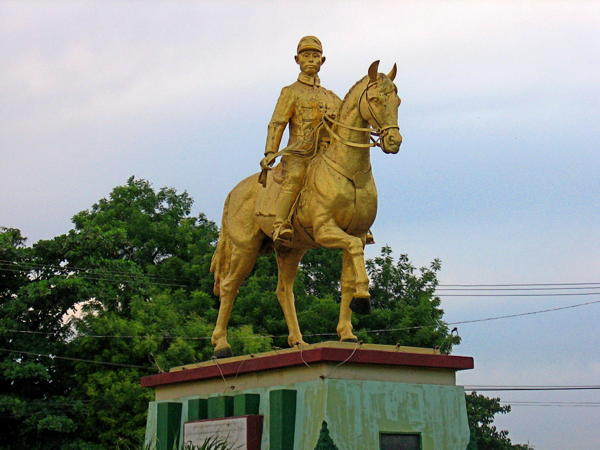 Bogyoke Aung San statue in Monywa, Myanmar.